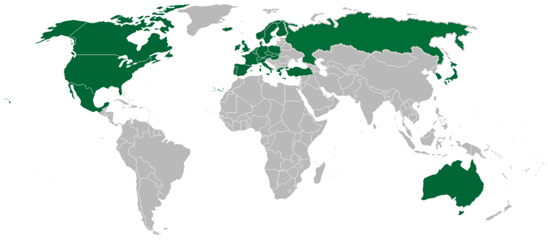 Map of members of Nuclear Energy Agency